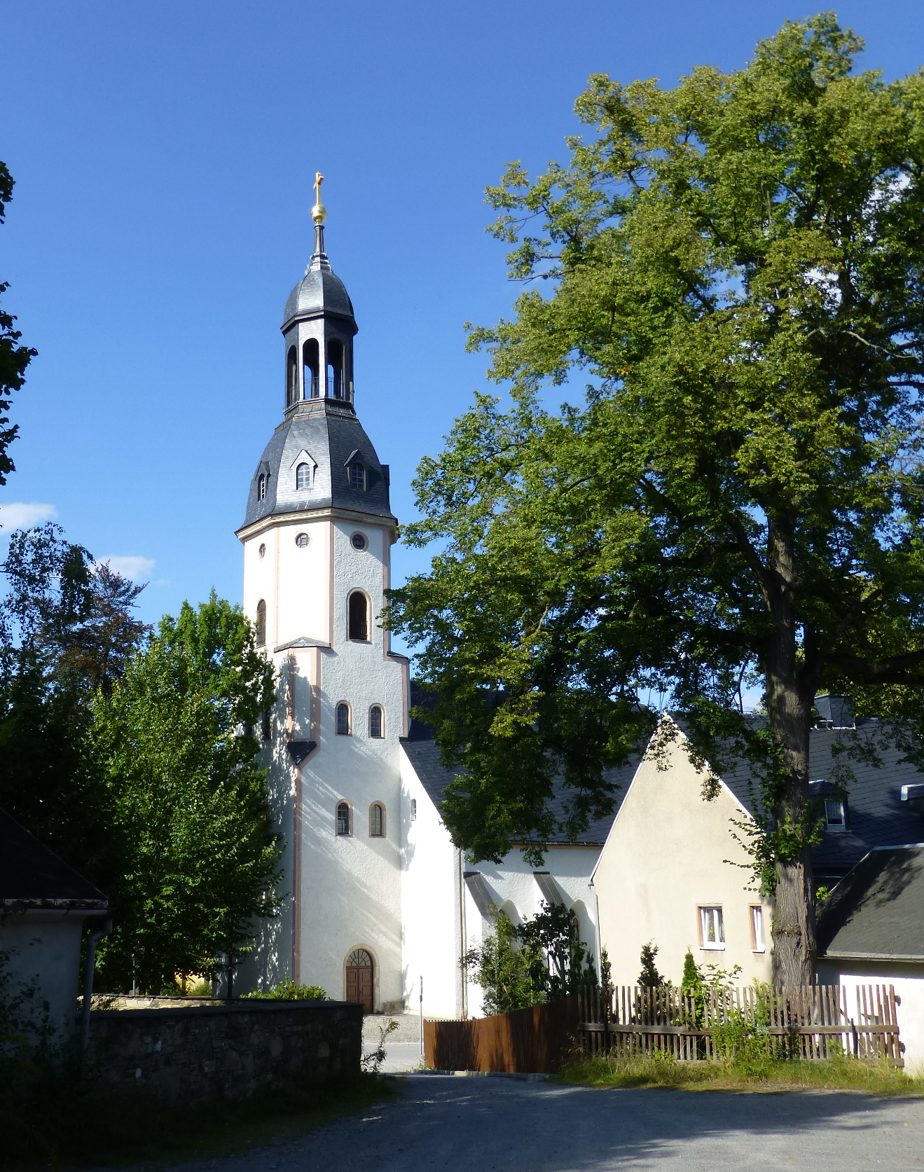 The church of Schlettau, its octogonal tower, Saxony.